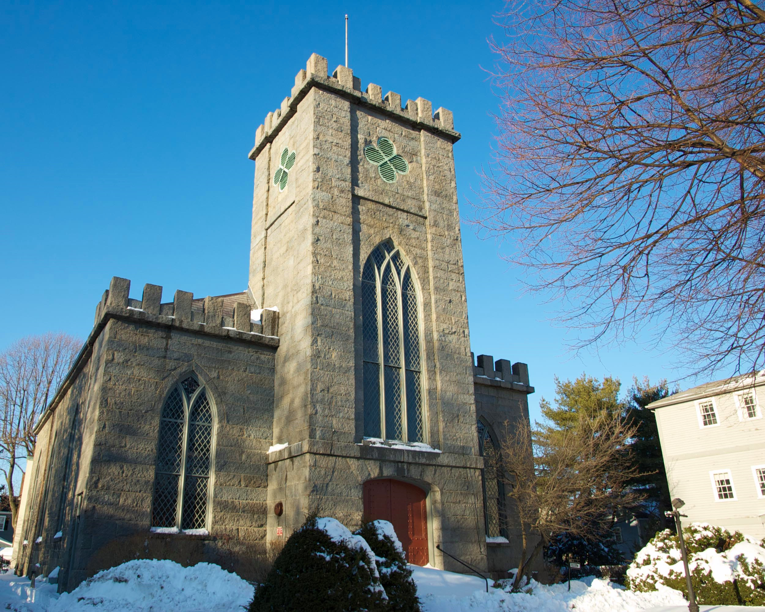 First Church in Salem, a Unitarian church founded in 1629, one of the oldest in North America. (The actual building depicted was built in 1836).